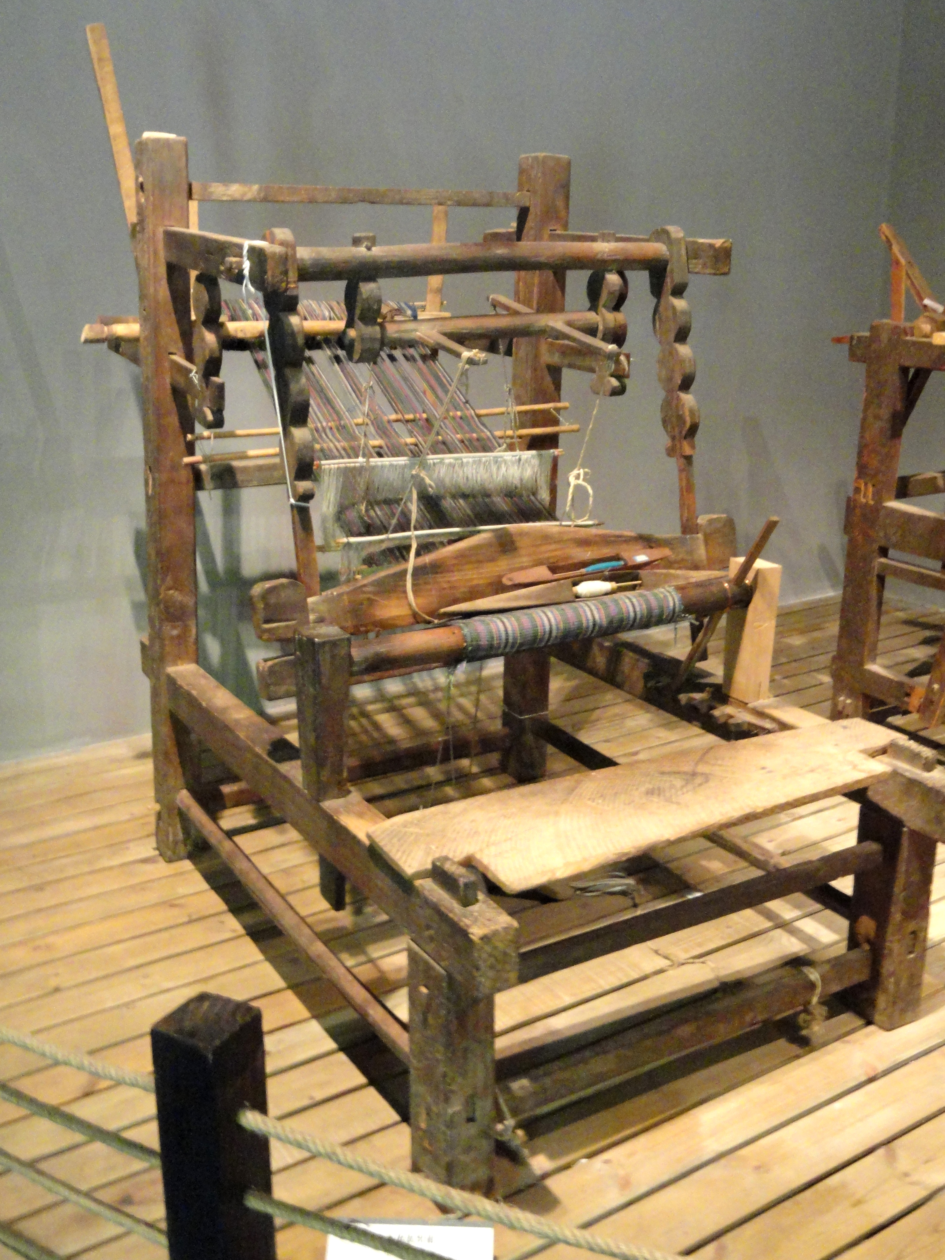 Buyi (Buyei) loom. Exhibit in the weaving collection in the Yunnan Nationalities Museum, Kunming, Yunnan, China.